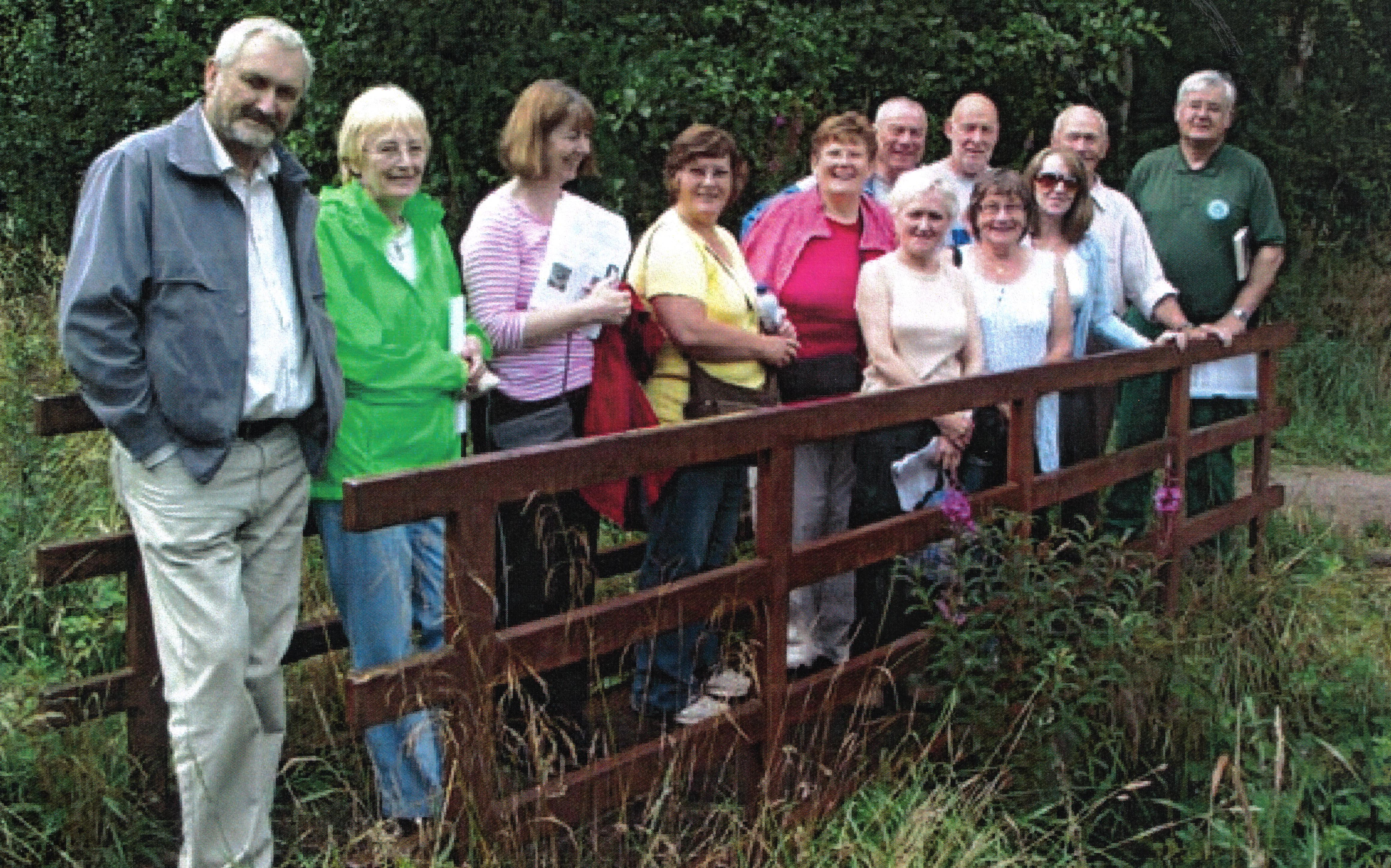 The Drukken Steps Bridge with an Irvine Burns Club event. Irvine, Scotland